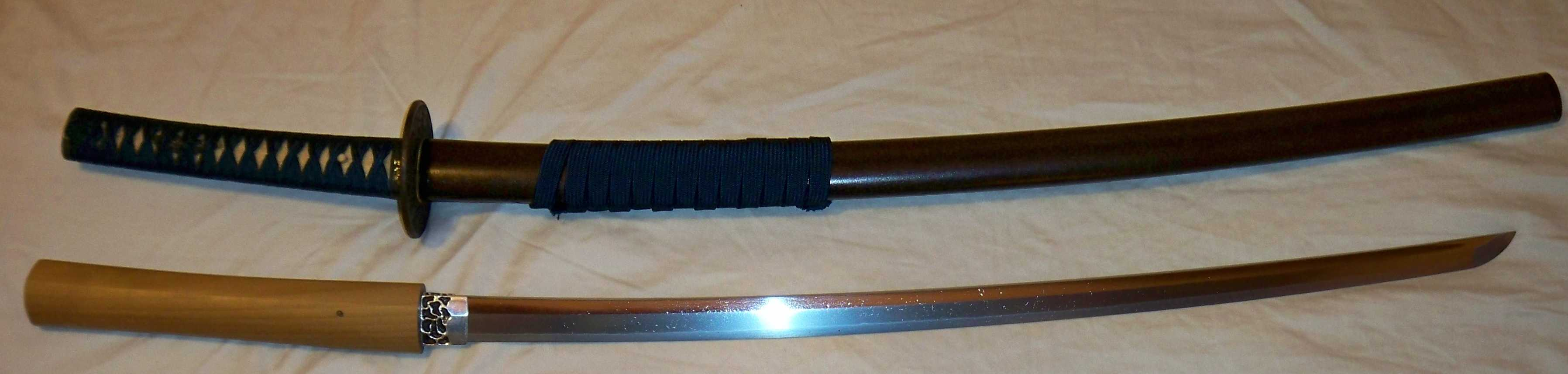 Antique Japanese (samurai) Edo period katana and koshirae.